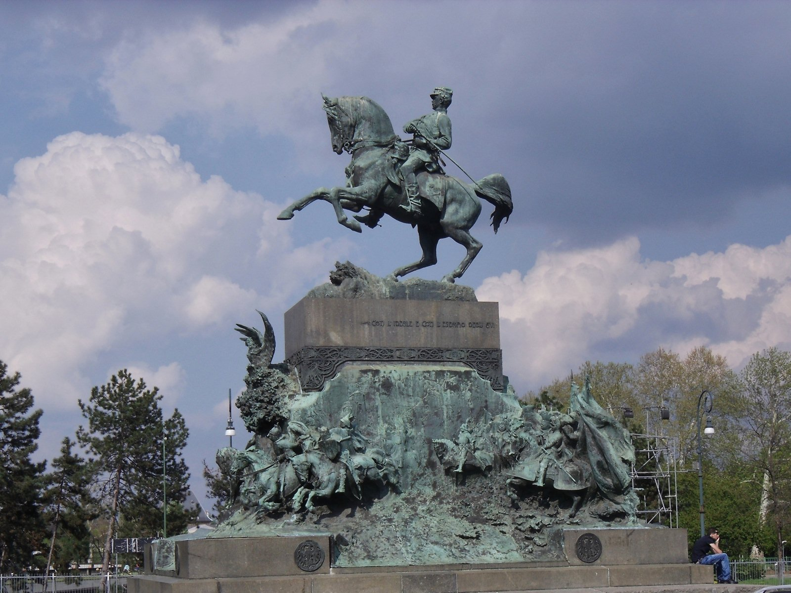 Statue is located just north of Parco Valentino at Corso Rafaelo. If anyone recognises the statue I would appreciate a little more information, I was remiss on the day !!!!!